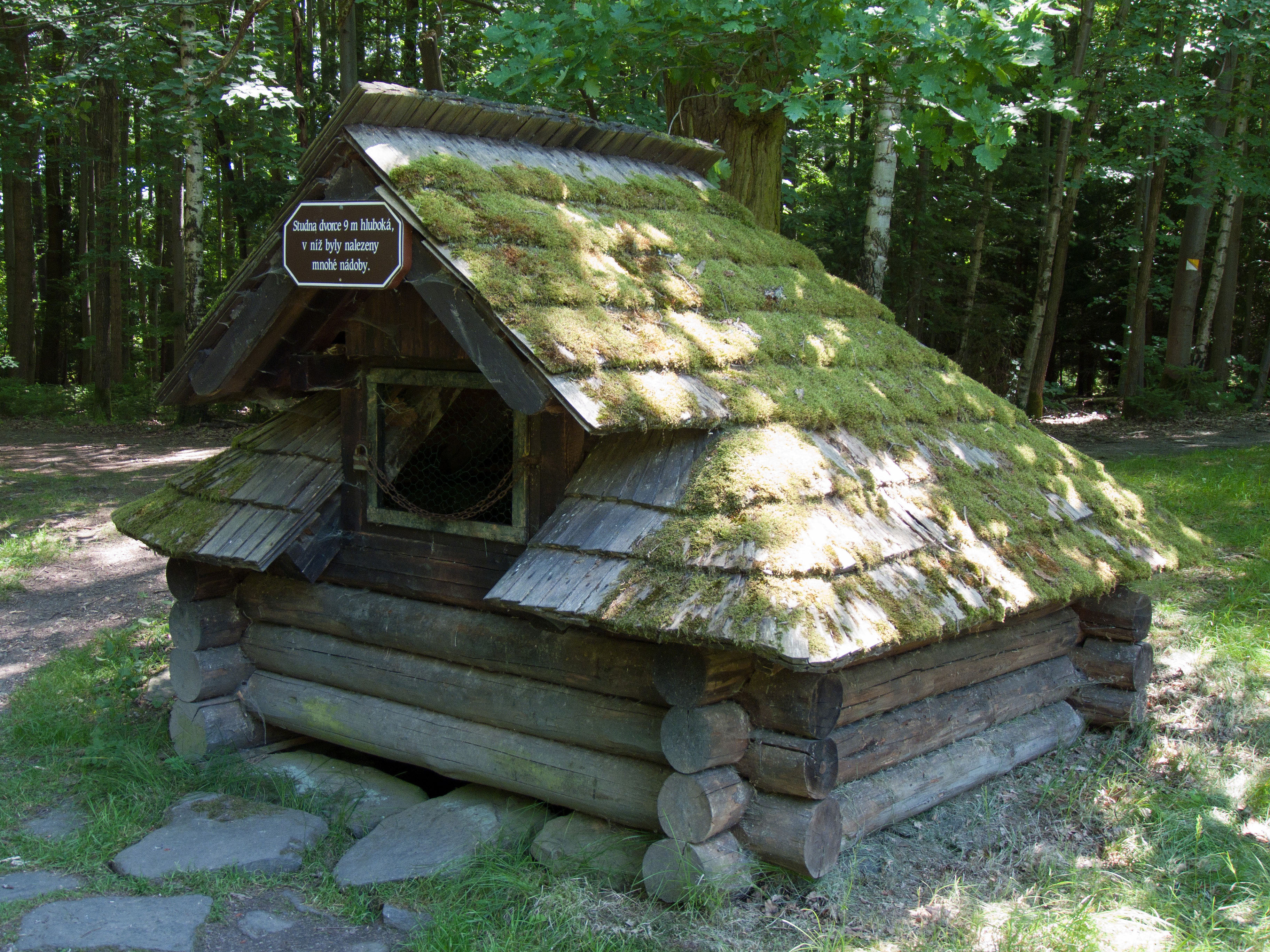 Nine-meter-deep well south of the ruins of the Mikš court in the north of the Jan Žižka Monument near Trocnov, České Budějovice District, Czech Republic. Česky: Devítimetrová studna jižně od pozůstatků Mikšova dvorce v severní části areálu Památníku Jana Žižky poblíž Trocnova, okres České Budějovice.